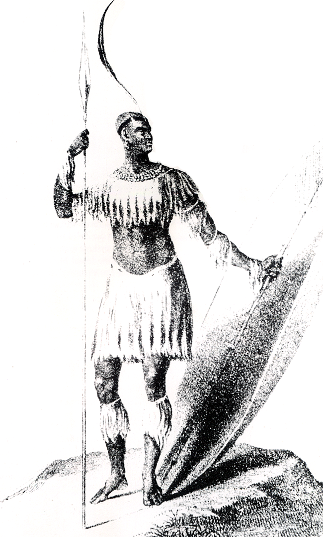 Shaka, king of the Zulu. After a sketch by Lt. James King, a Port Natal merchant.